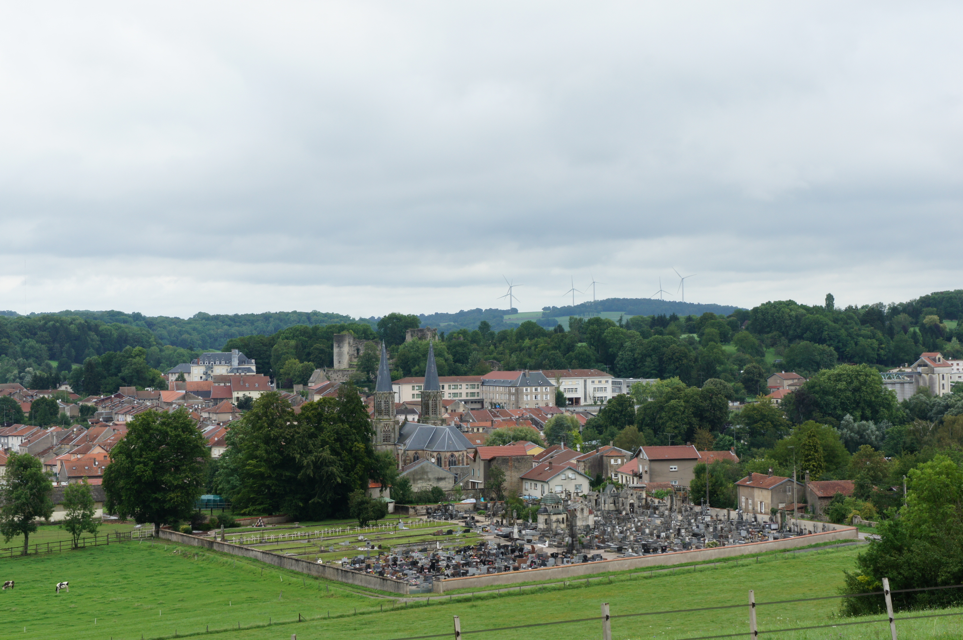 Blâmont, Lorraine, France.